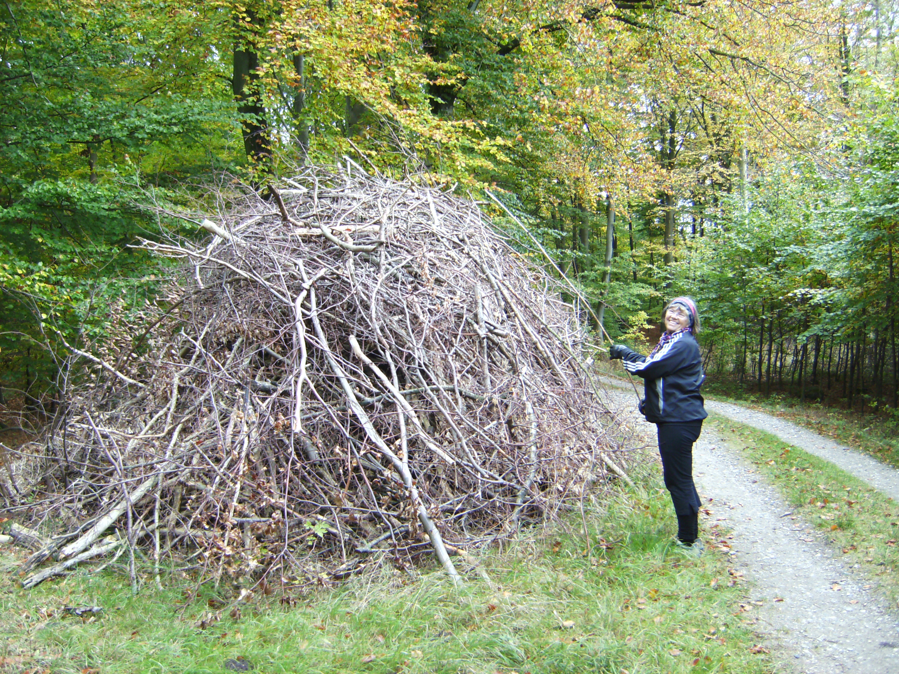 Stikhokke (a pile og sticks) Hydeskov, Denmark